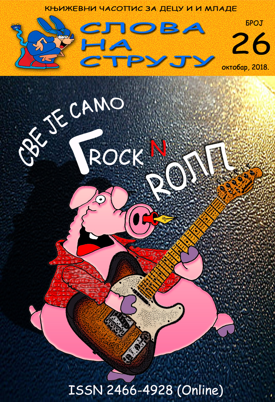 Front page Slova na struju, children magazine, publish by Public Library Radislav Nikčević Jagodina, Serbia, illustrator by Peđa Trajković